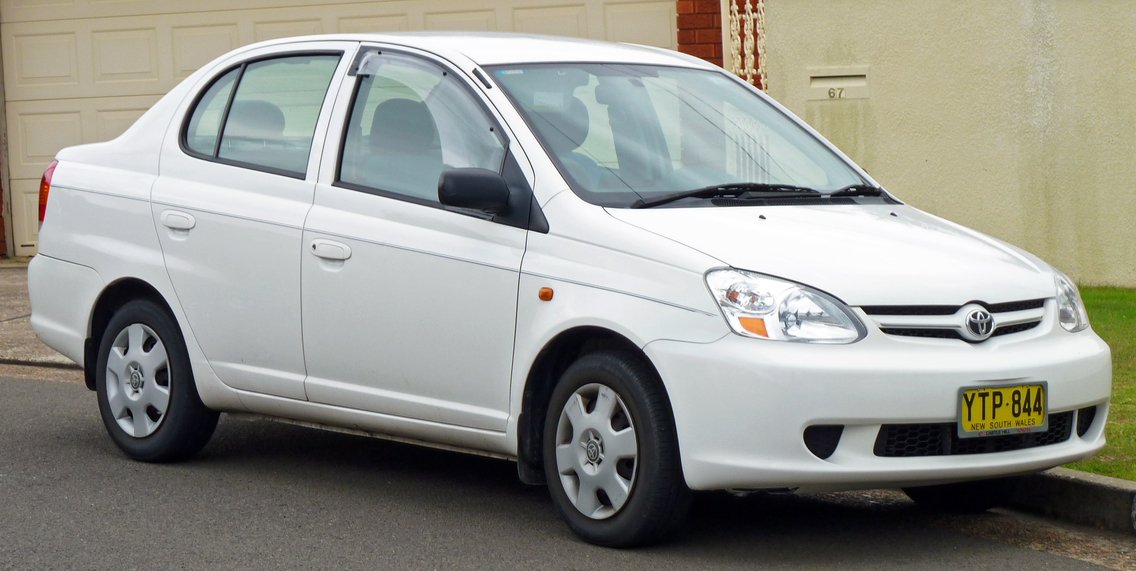 2003 Toyota Echo (NCP12R) sedan. Photographed in Cronulla, New South Wales, Australia.